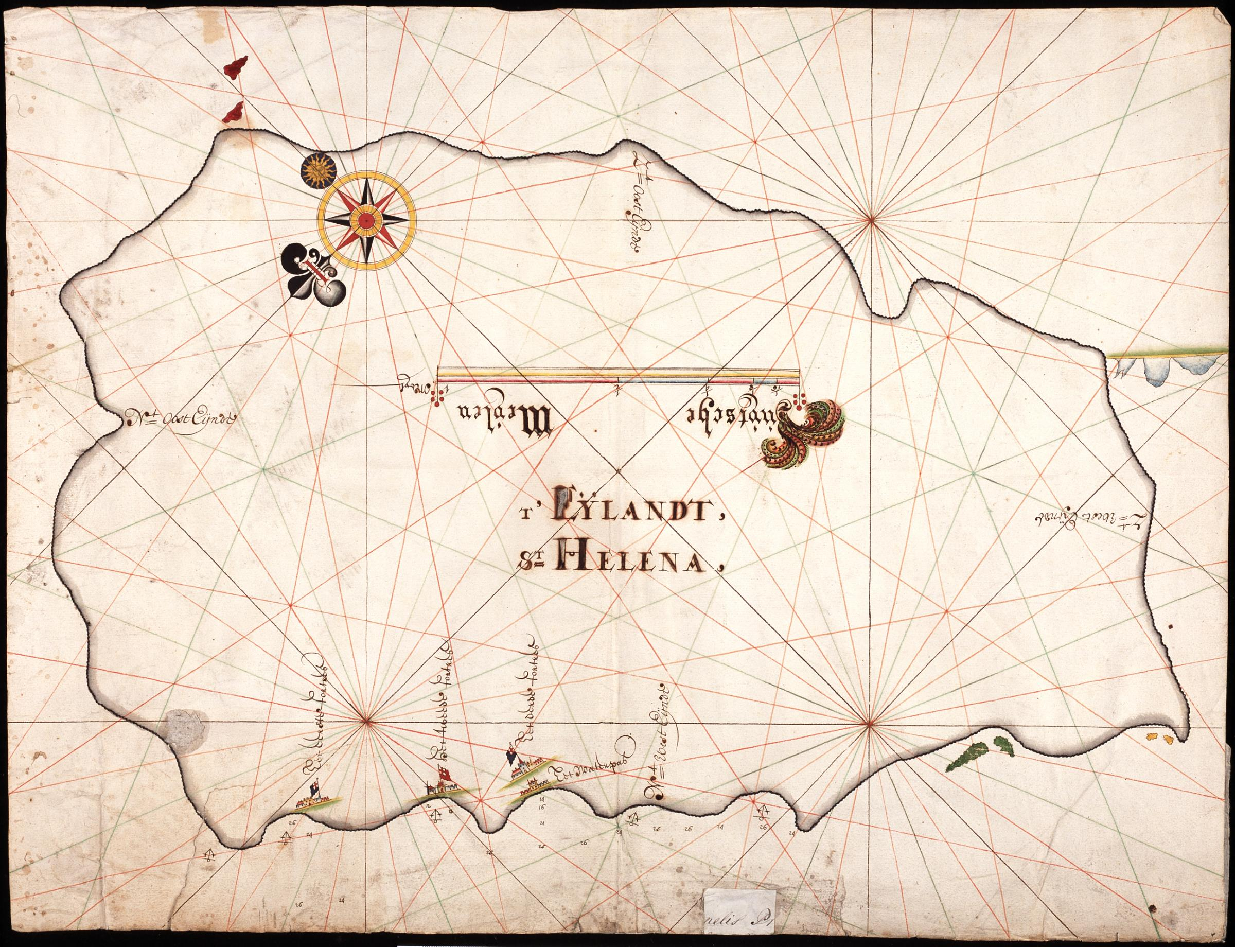 Title in the Leupe catalogue (National Archives): Kaart van het Eyland St. Helena. Ink corrosion in the letters of the text: T'Eijlandt St Helena. The reverse has been stuck with Japanese paper.